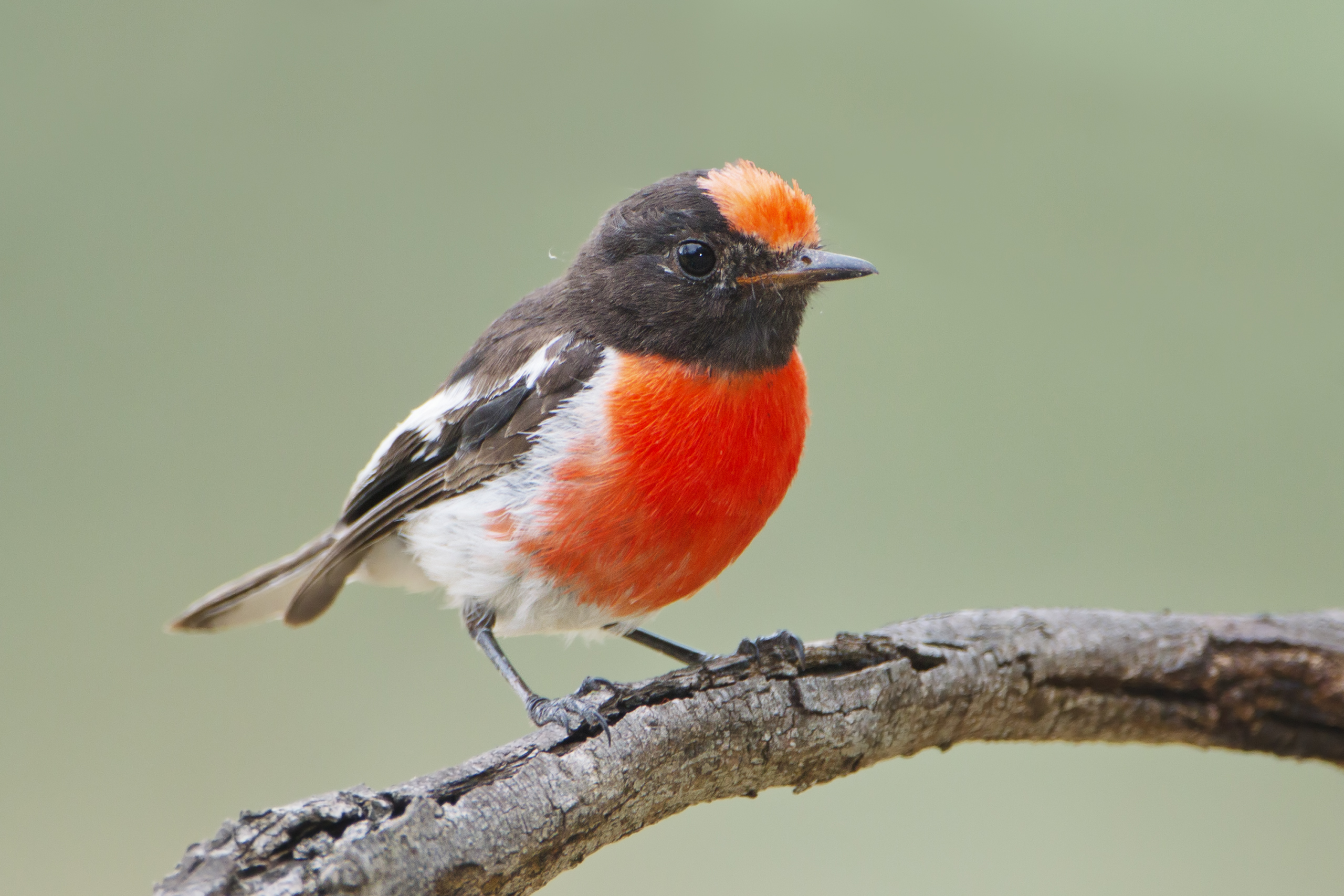 Red-capped Robin (Petroica goodenovii), Chiltern, Victoria, Australia